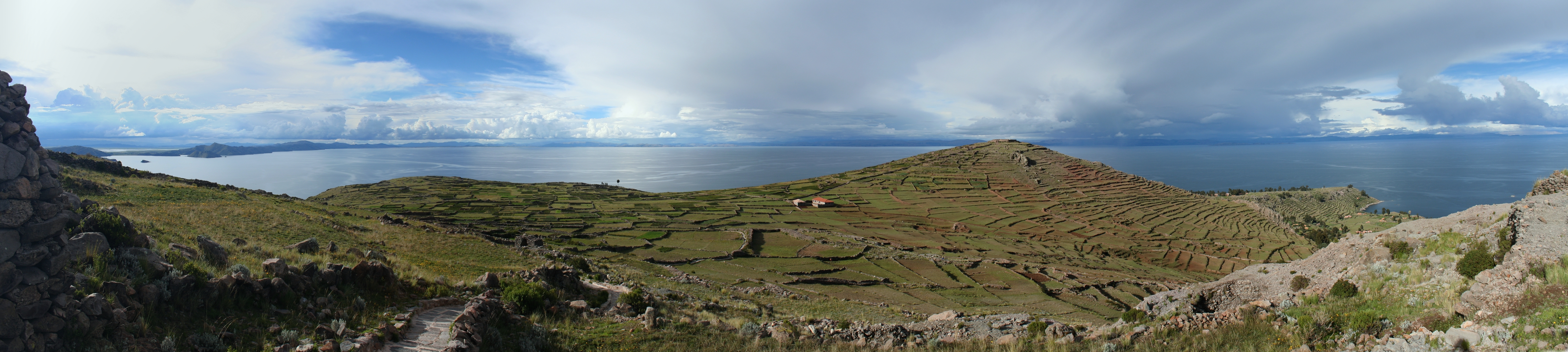 Interior of Amantaní from Pachamama